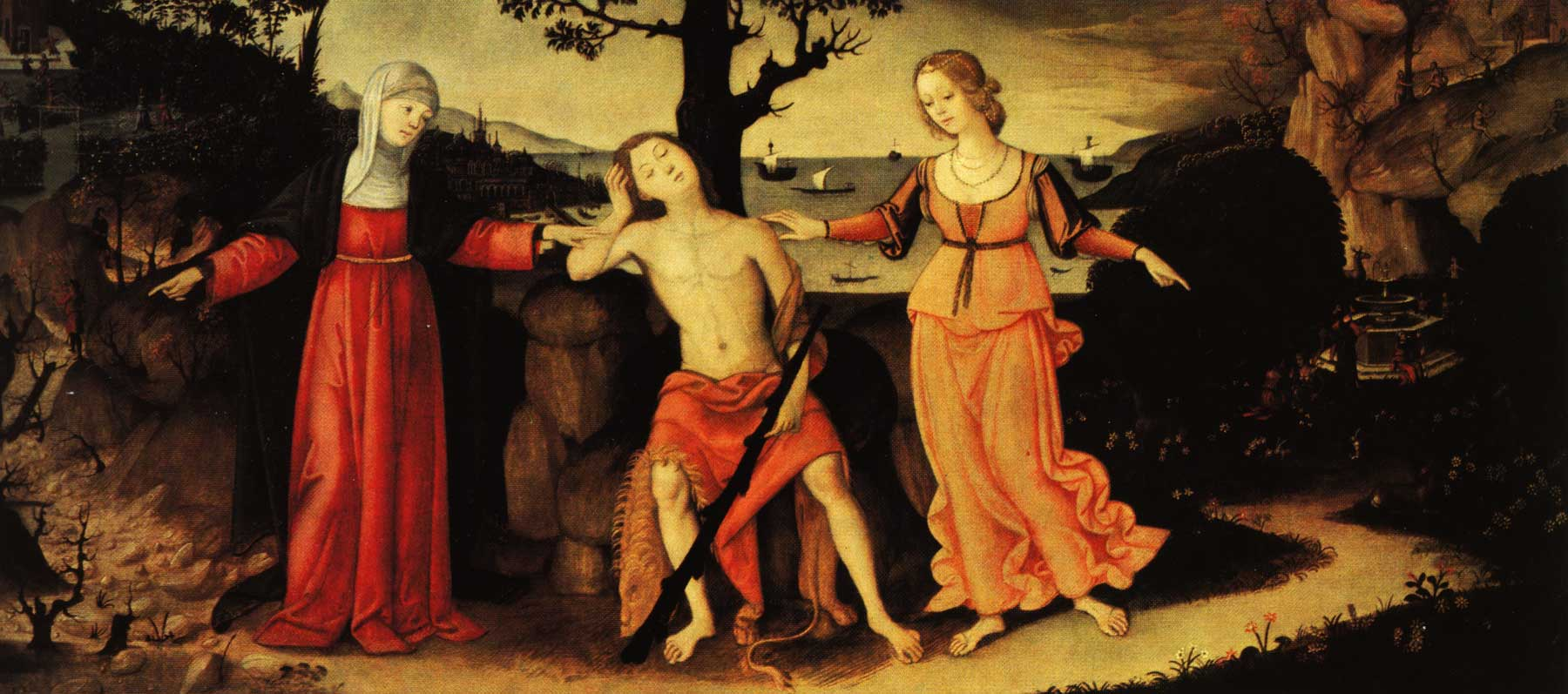 Hercules at the crossroads